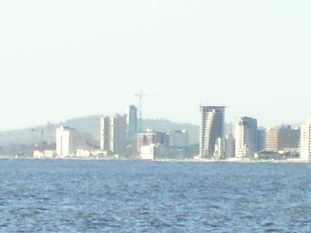 Strand, Western_Cape